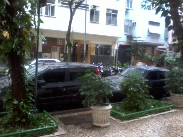 Almirante Tamandaré street, in the Flamengo neighborhood of Rio de Janeiro.